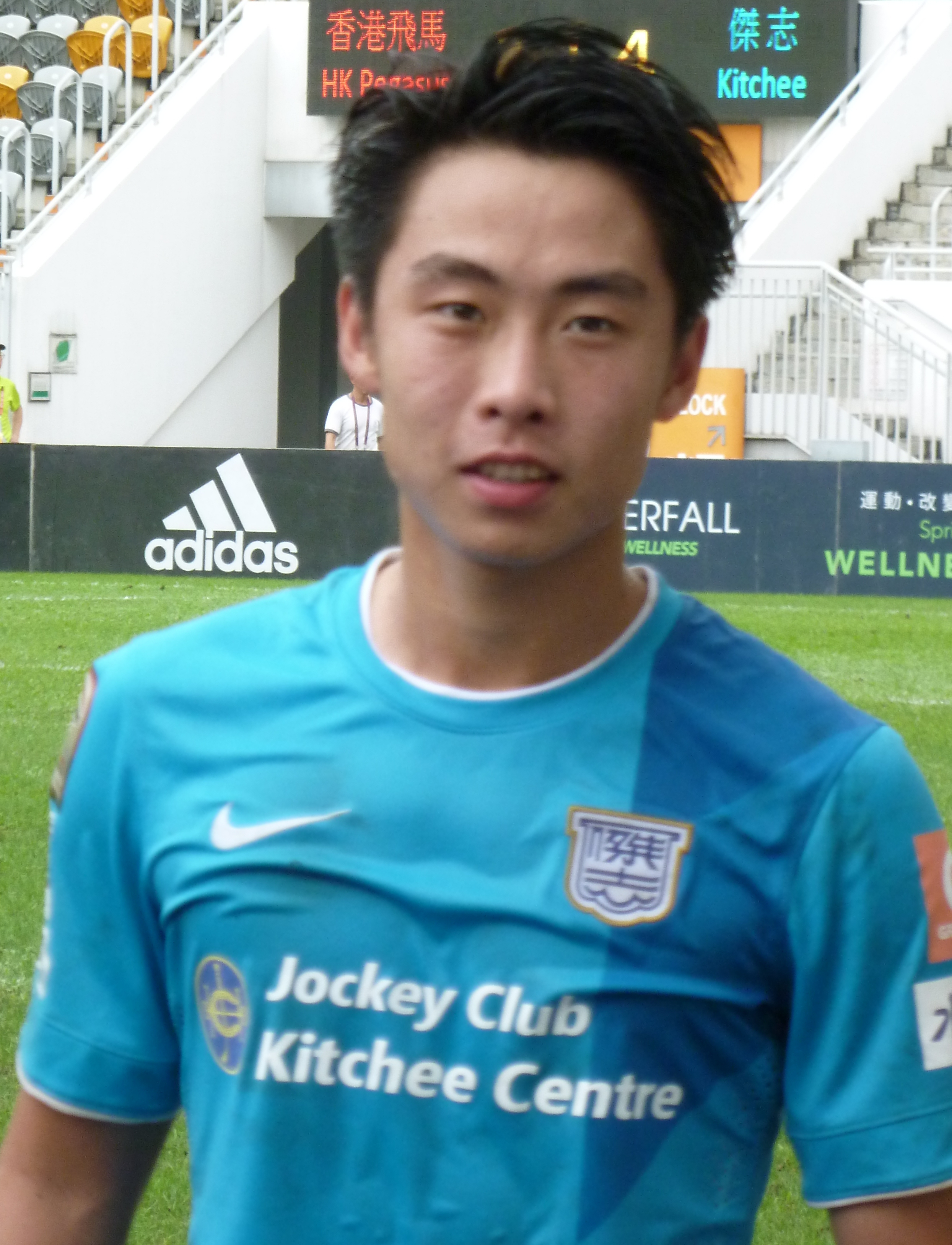 Cheng Chin Lung (23 Apr 2016, Hong Kong Premier League, Pegasus vs Kitchee, Mongkok Stadium) 中文（香港）: 鄭展龍 (23 Apr 2016, 香港超級聯賽, 飛馬 vs 傑志, 旺角大球場)